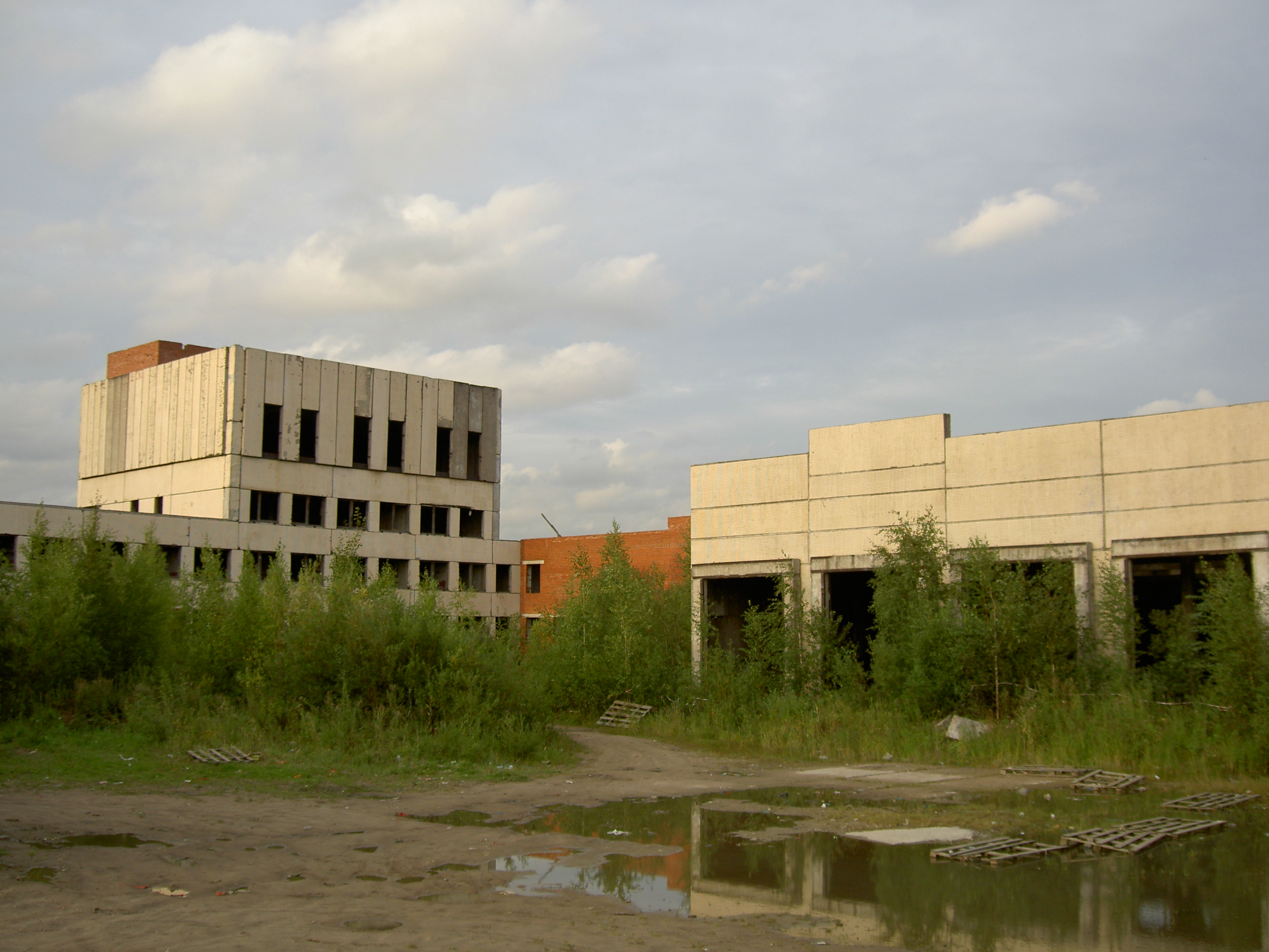 Saint Petersburg. Uncompleted tram depot № 11.